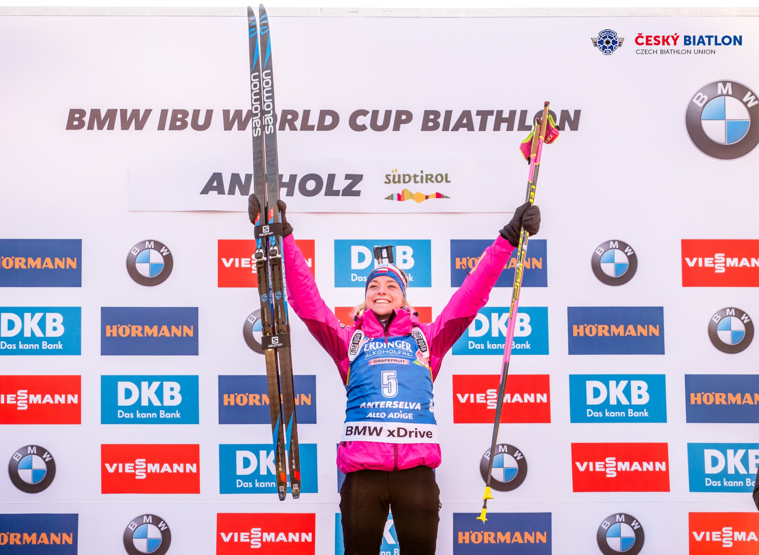 Czech biathlete Markéta Davidová in Anterselva, 2019